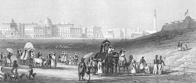 Calcutta in 1850.